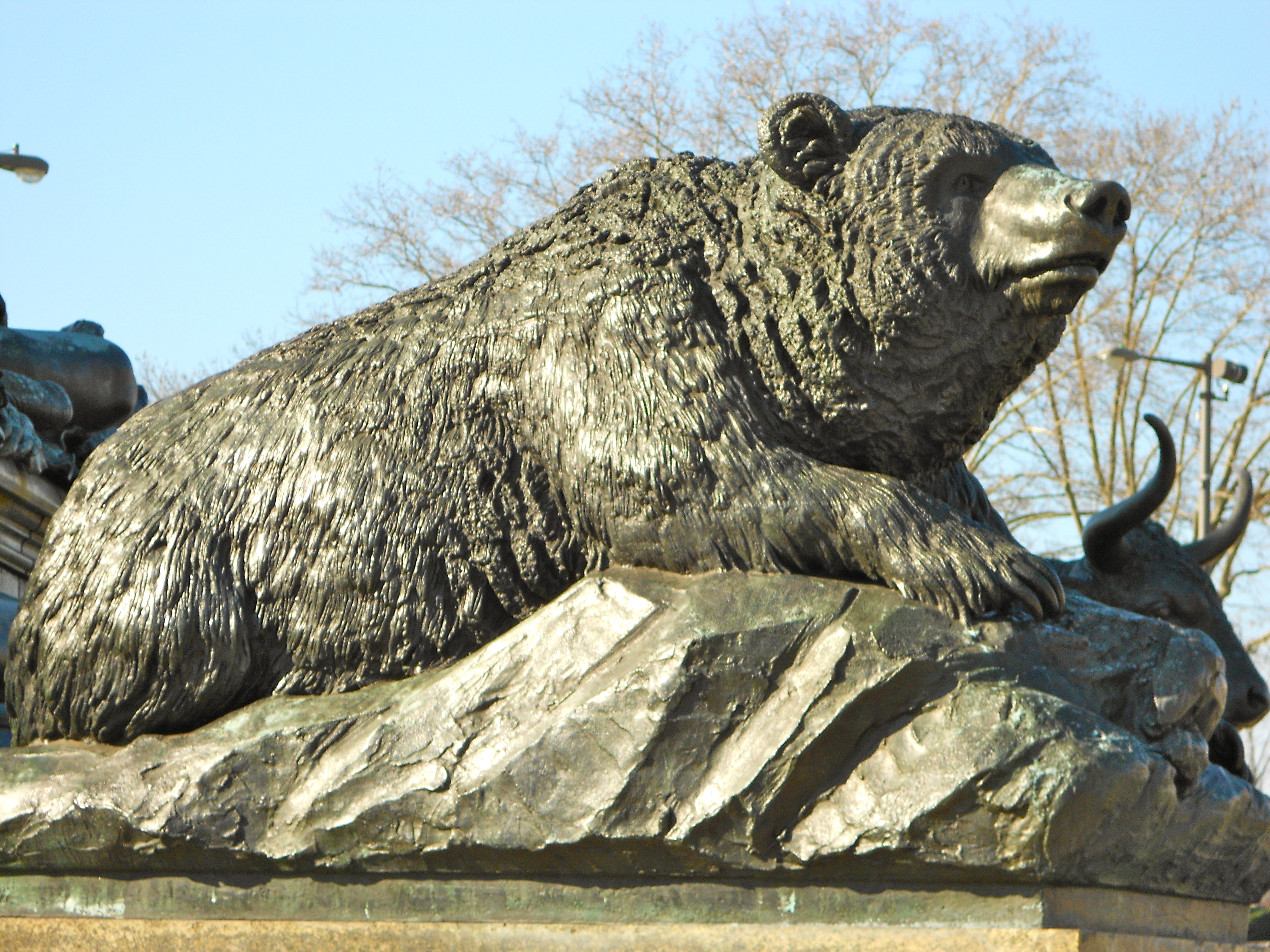 Sculpture of a bear 1800s in front of Philadelphia Museum of Art part of the George Washington statue.